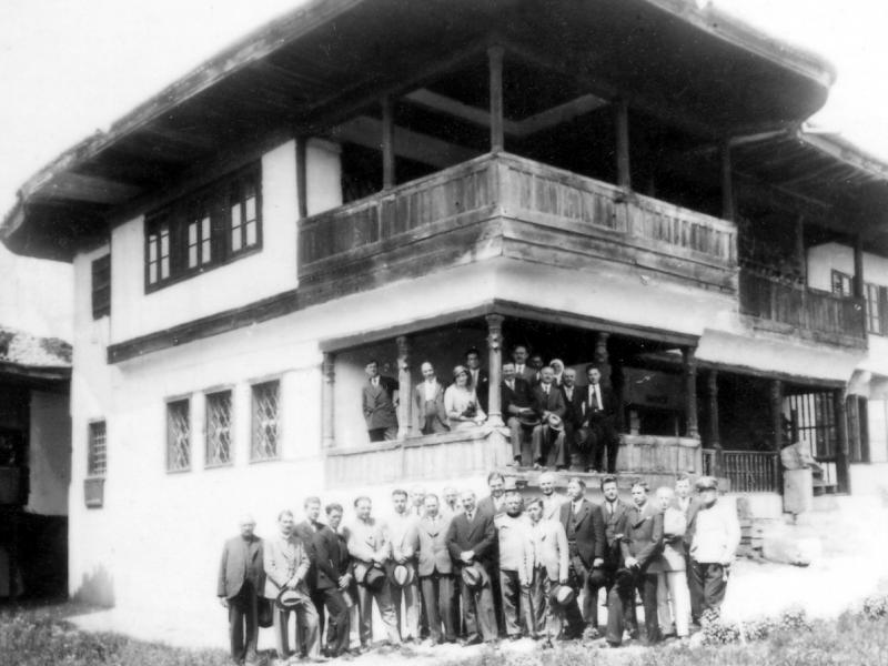 Kuća Hristovih - prva zgrada niškog Muzeja Niš, Srbija